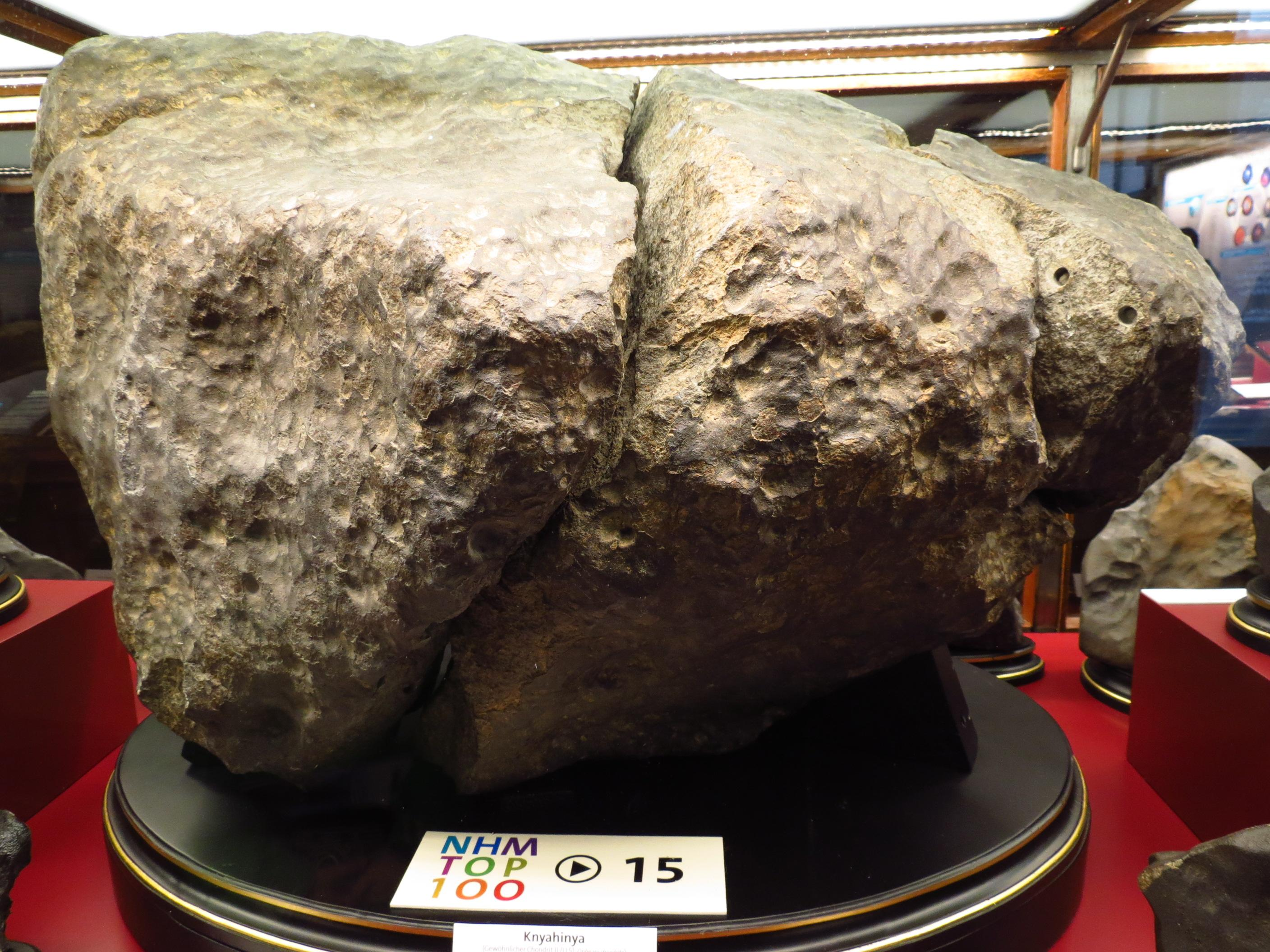 Knyahinya meteorite, L/LL5. Vienna Museum of Natural History.